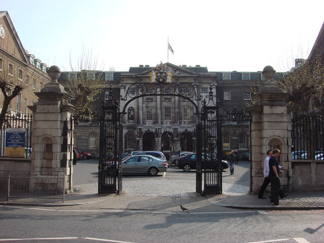 Guy's Hospital The original Guy's Hospital building with its courtyard facing St Thomas Street.